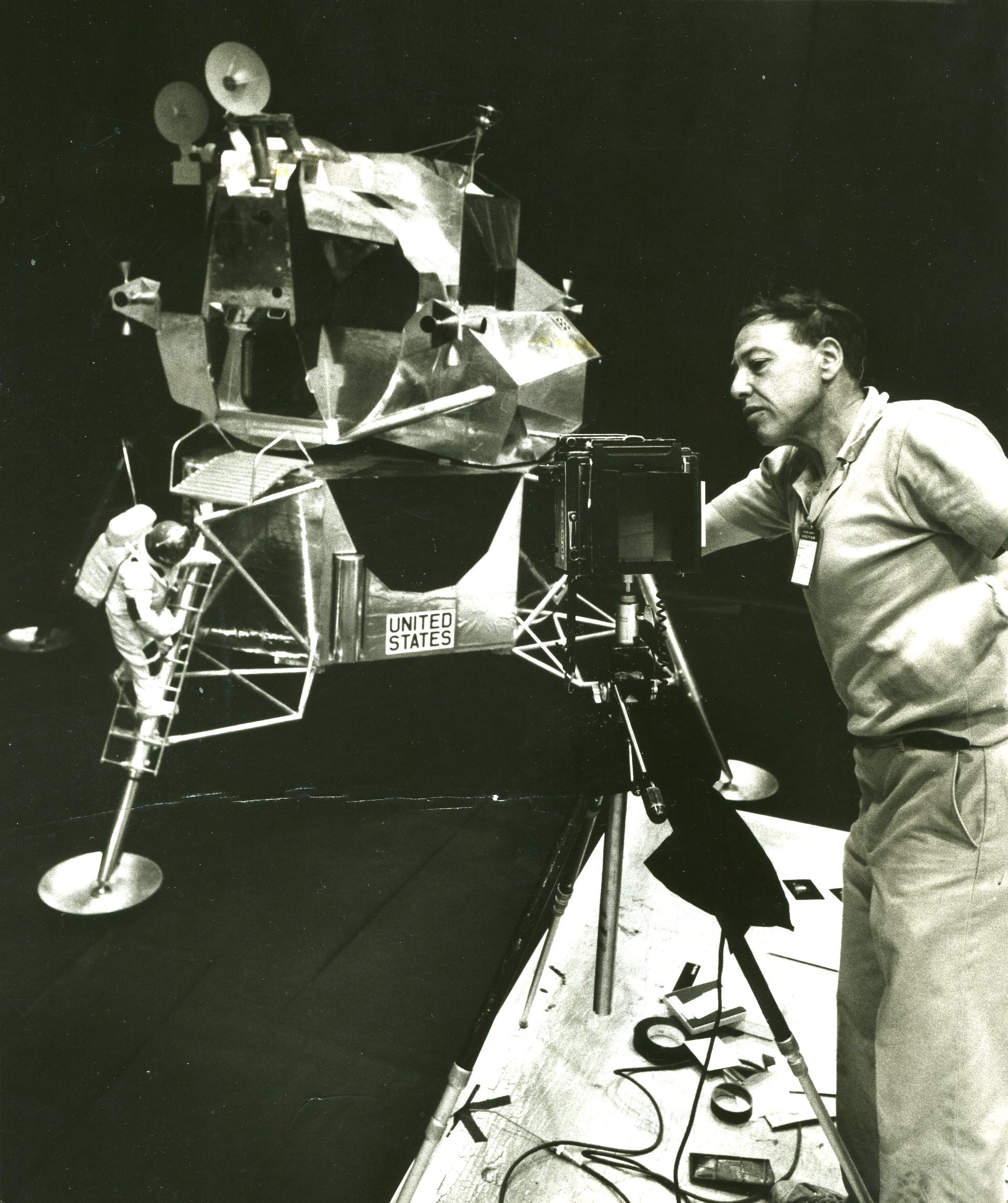 Ralph Morse photographing simulator of the Lunar Module circa 1961